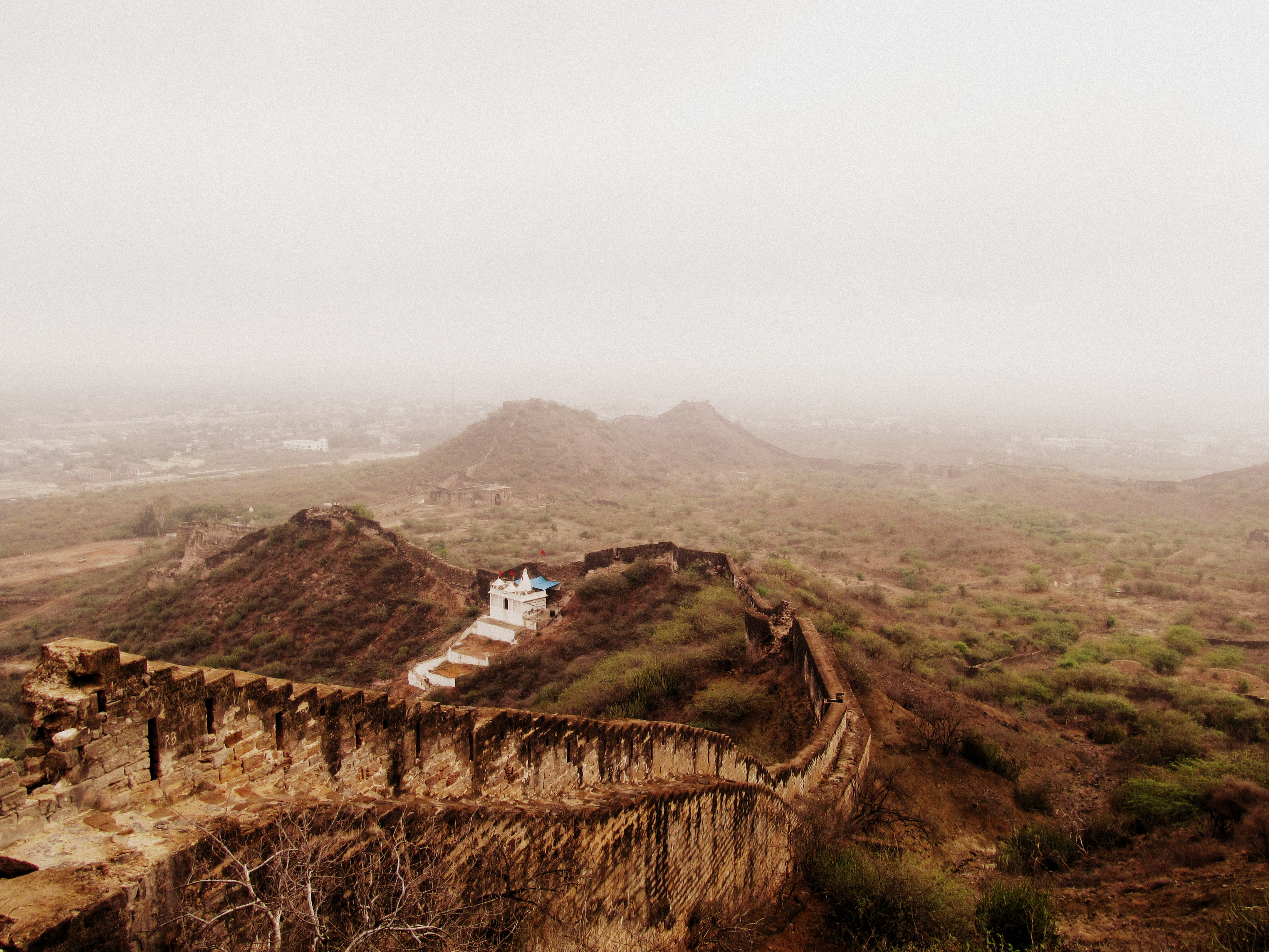 its an ancient wall situated outside the city bhuj in india...